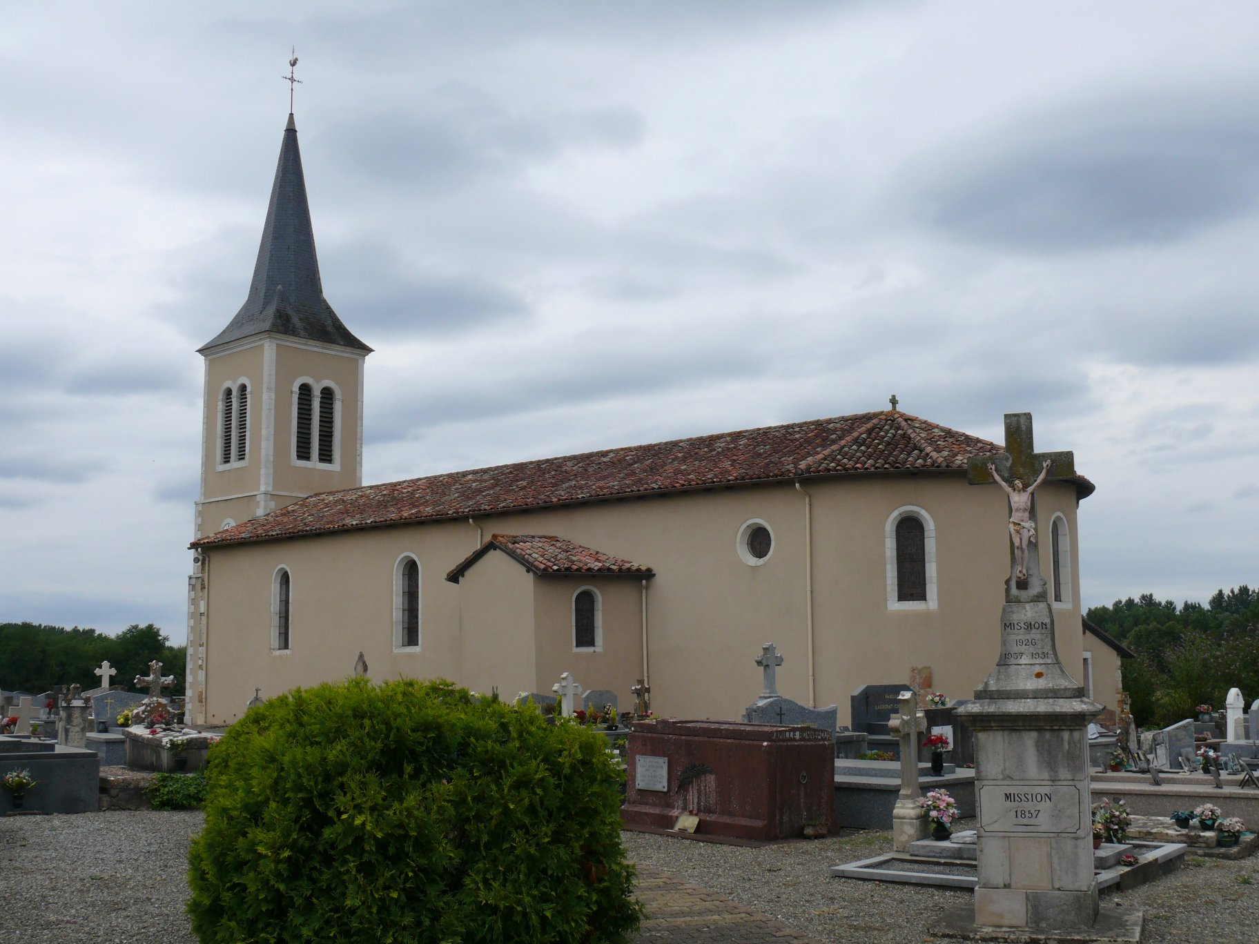 Saint-Cyr-and-Saint-Julitte's church of Saint-Cricq-du-Gave (Landes, Aquitaine, France).